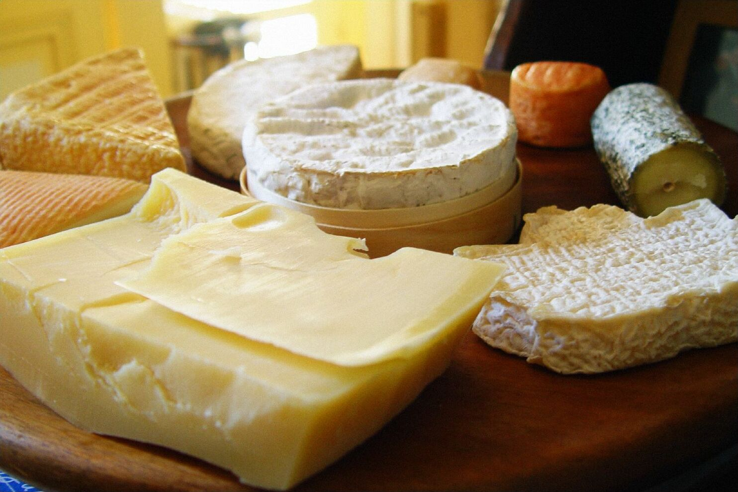 The French know how to construct a cheese plate!